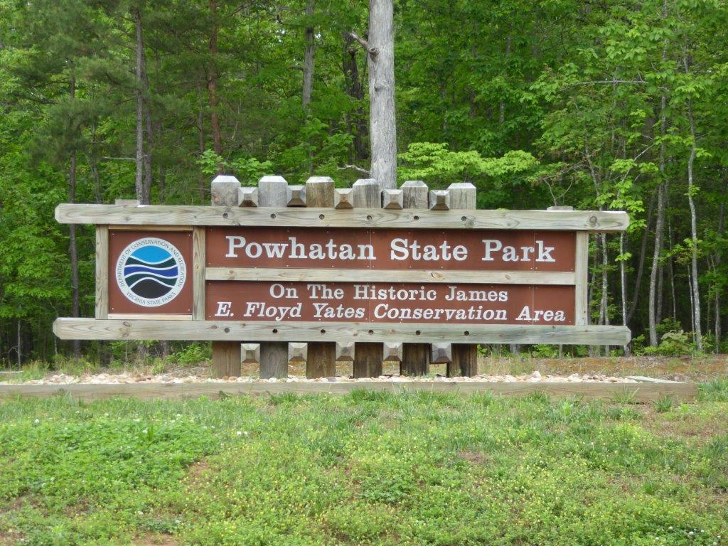 Sue Leon Travel Writer June 2 eNews dhb